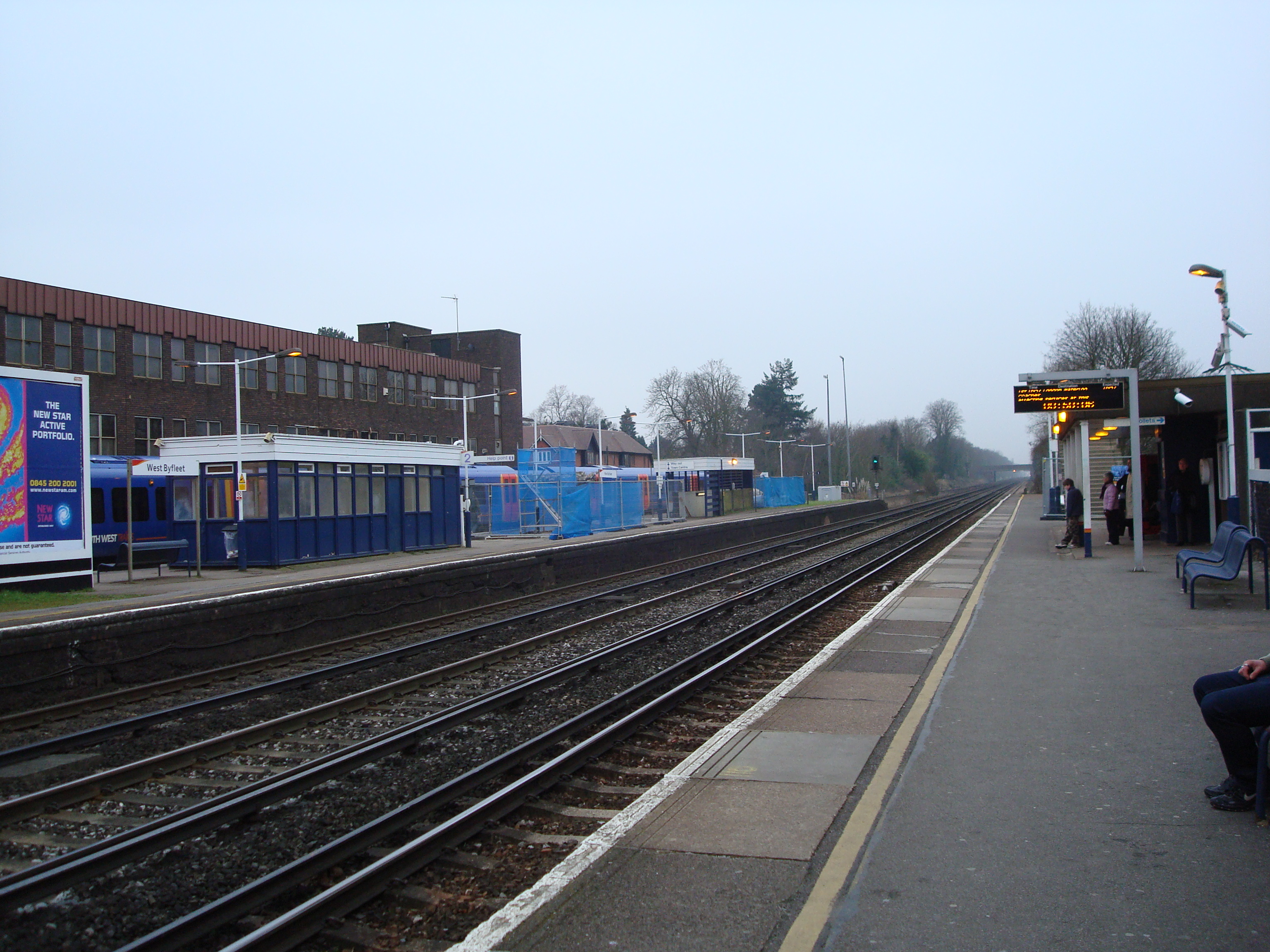 West Byfleet railway station. The bridge has been removed between the two platforms of the station. S Knights, my photo, Feb 2008